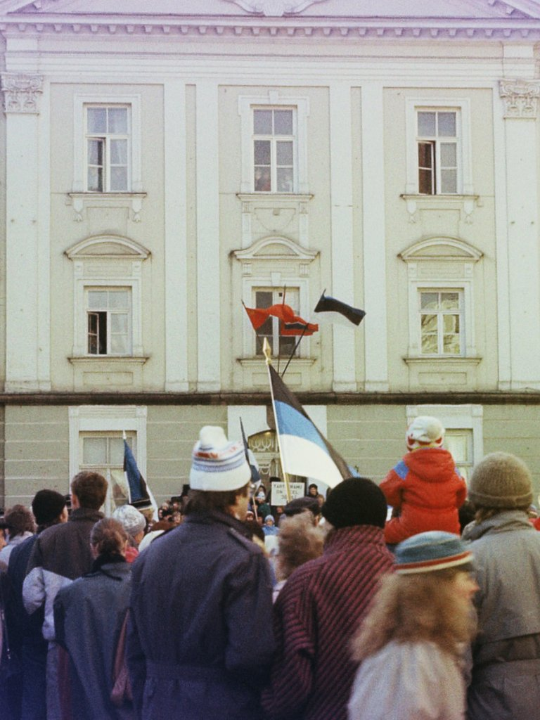 Demonstration in front of Tartu Town Hall